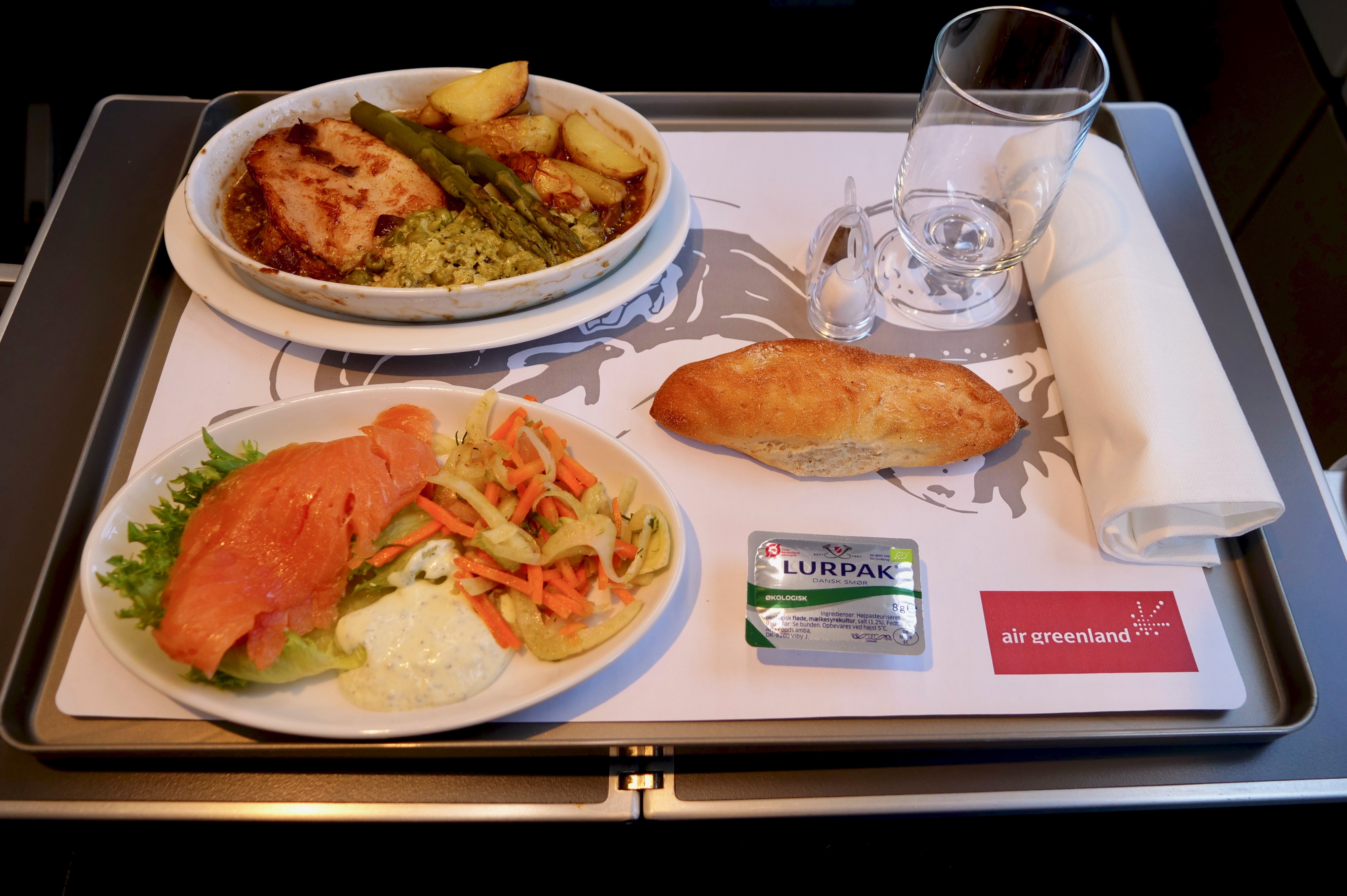 An Air Greenland business class meal that consists of chicken & salmon.